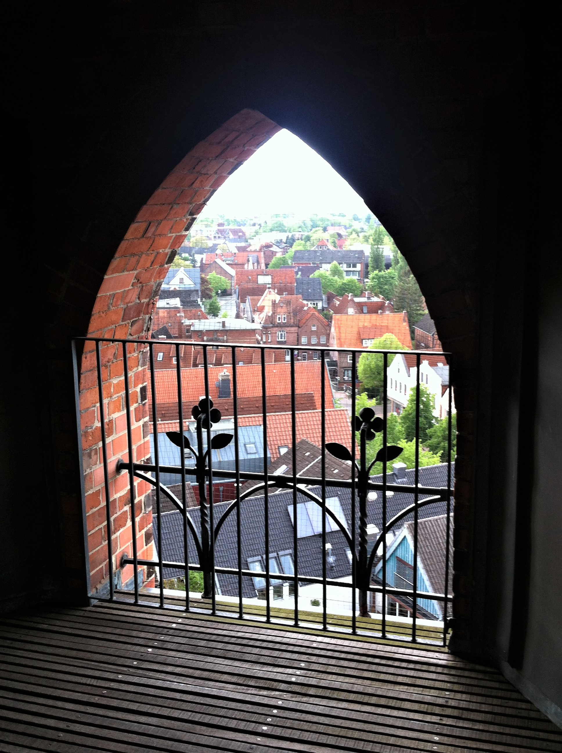 View from the observation deck of the tower of the St. Marien church onto the market and dyke street in Winsen (Luhe)